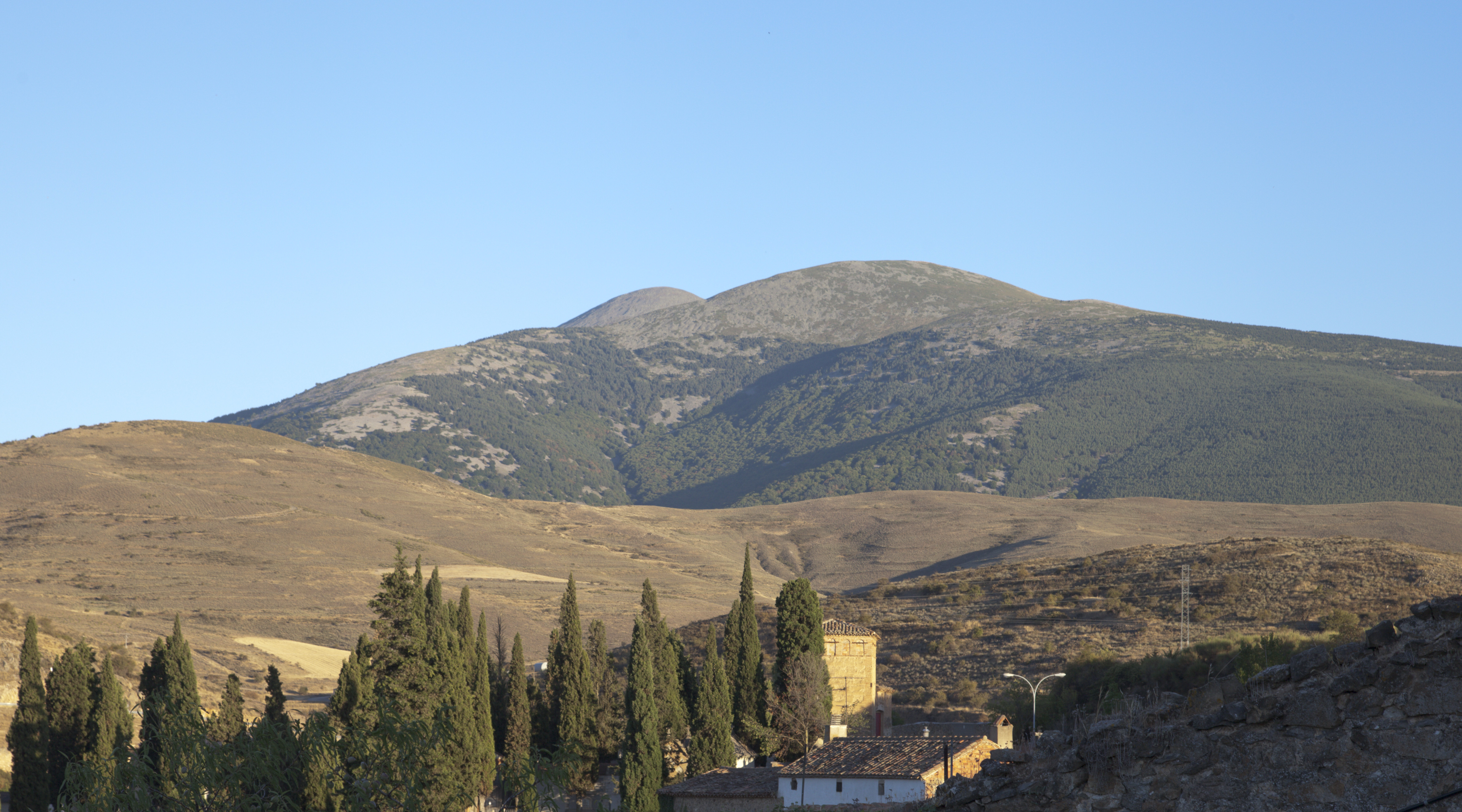 View of Moncayo from Ágreda, Spain